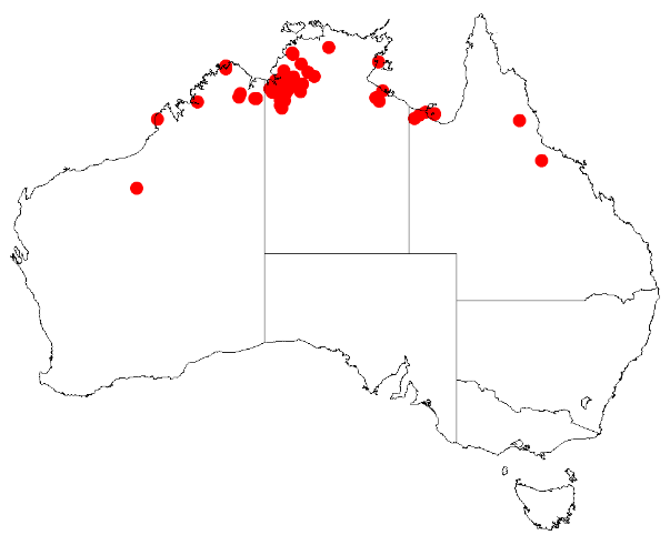 Acacia setulifera Occurrence data from Australasia Virtual Herbarium downloaded from on 8 December 2018